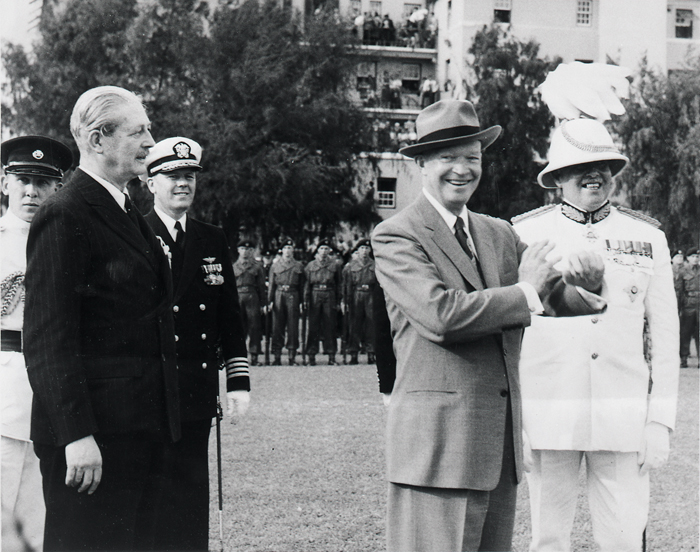 Description: US President Dwight D. Eisenhower and British Prime Minister Harold Macmillan meet for talks in Bermuda, partly to repair Anglo-American relations after the disastrous Suez Crisis of the previous year. Date: March 1957 Our Catalogue Reference: CO 1069/268 This image is from the collections of The National Archives. Feel free to share it within the spirit of the Commons. For high quality reproductions of any item from our collection please contact our image library.